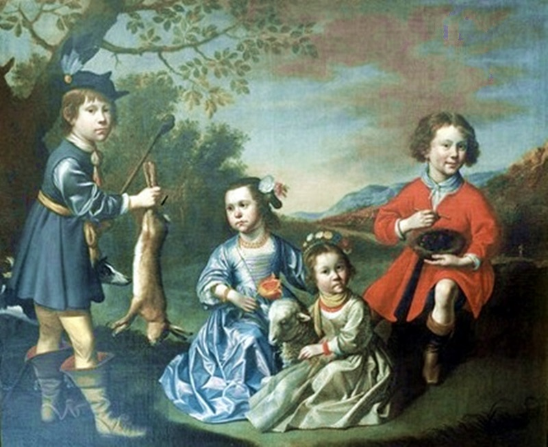 Simon Peter Tilman - The four children of council pharmacist Heinrich Elberfeld, 1647